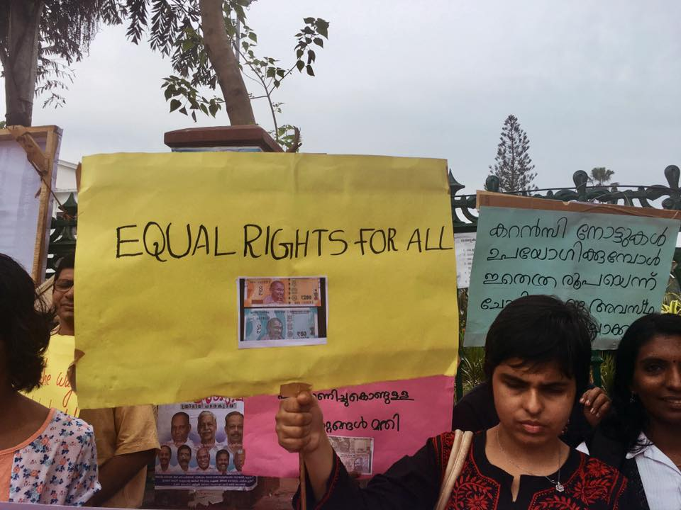 Tiffany Brar protesting for accessible currency for the Blind in India in the year 2018